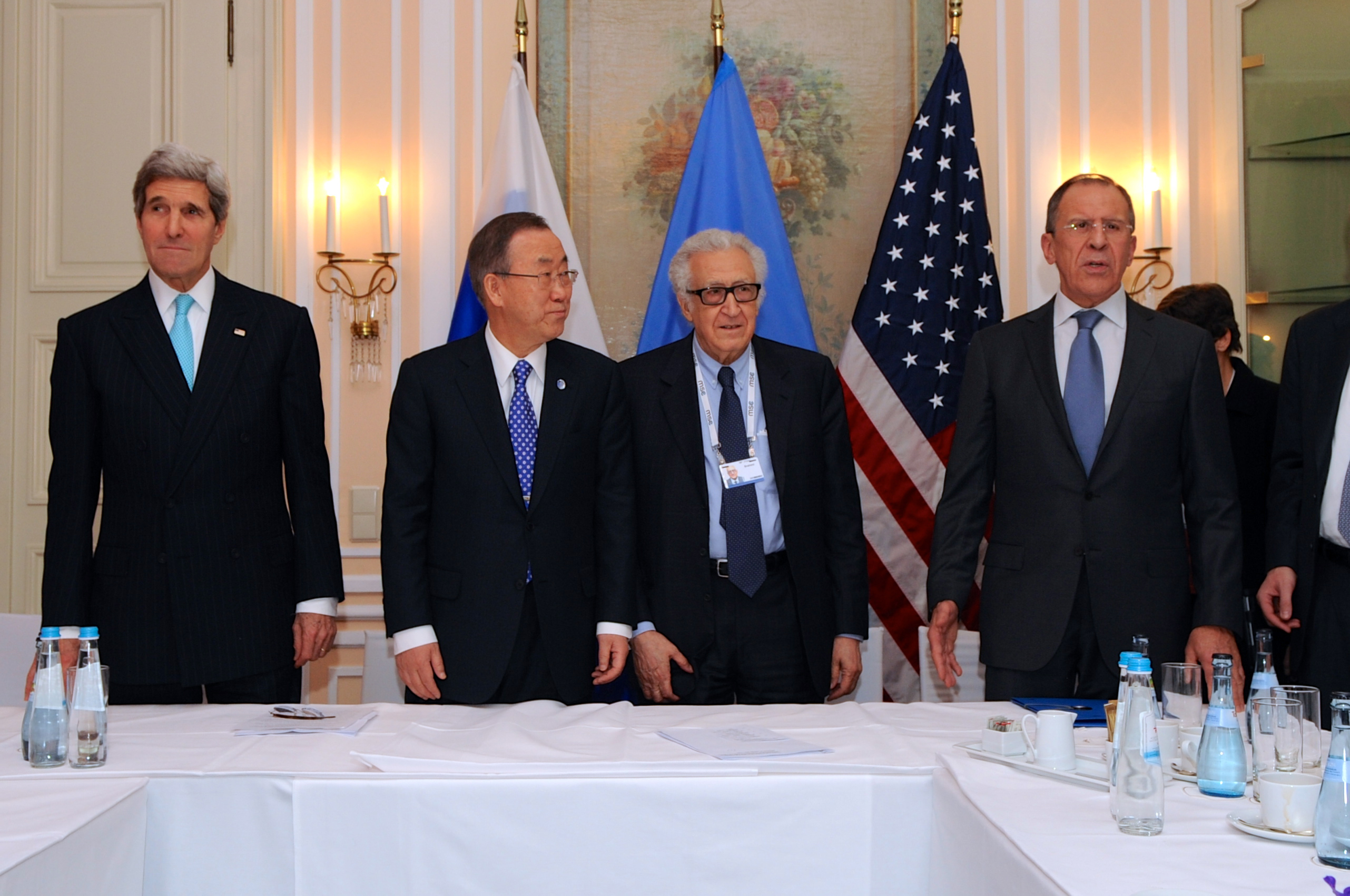 U.S. Secretary of State John Kerry and Russian Foreign Minister Sergey Lavrov flank United Nations Secretary-General Ban Ki-moon and U.N. Special Representative for Syria Lakhdar Brahimi before a trilateral meeting on the sidelines of the Munich Security Conference in Germany on January 31, 2014. [State Department photo/ Public Domain]